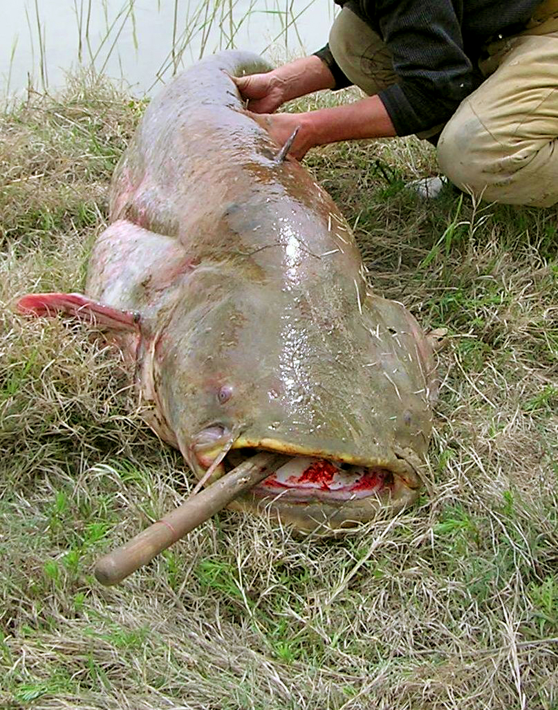 Сом. Сырдарья. Wels catfish (Siluris glanis), captured in the Syr Darya.